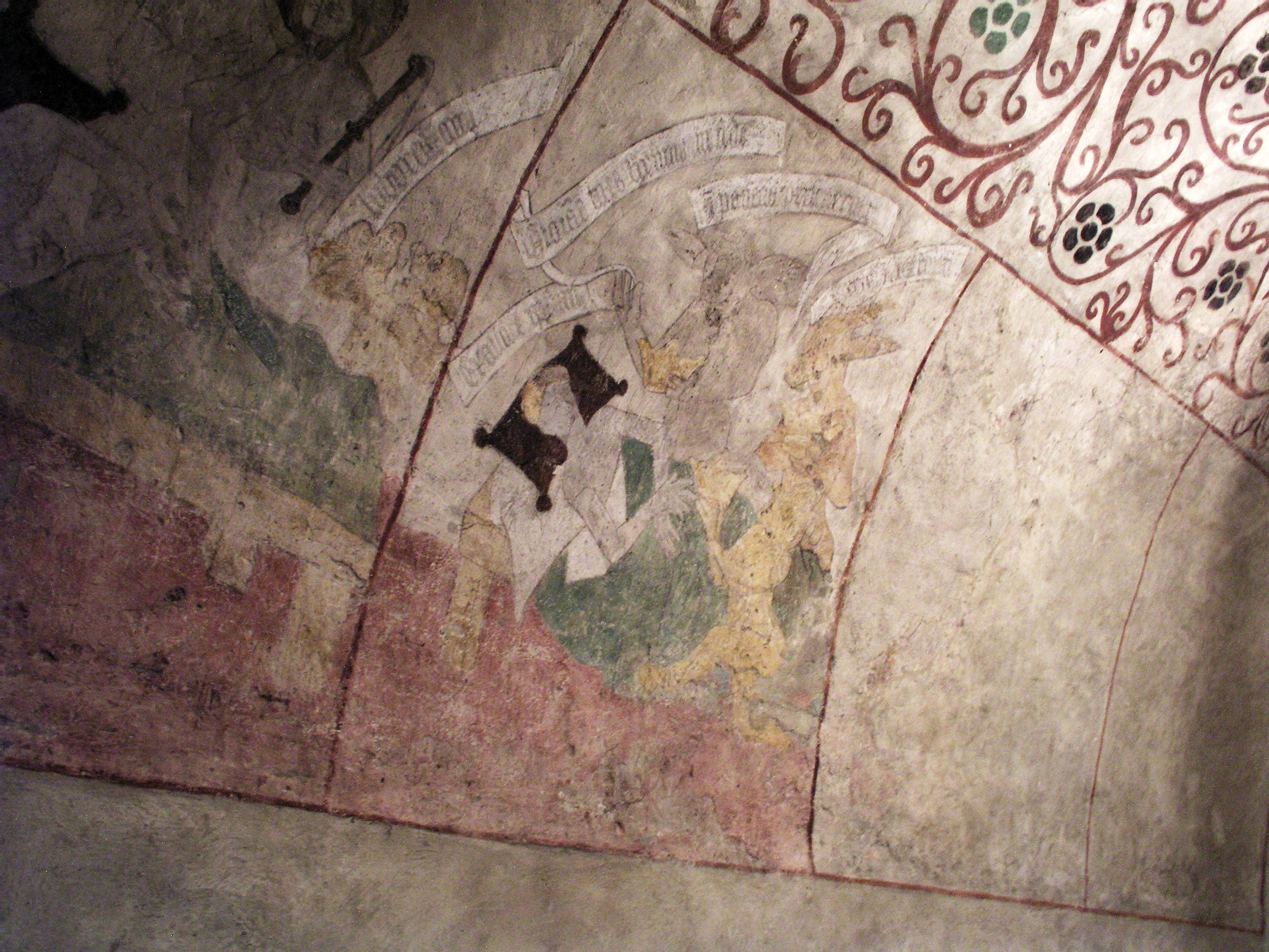 Solna Kyrka / Solna Church. Stockholms stift, Solna kommun.